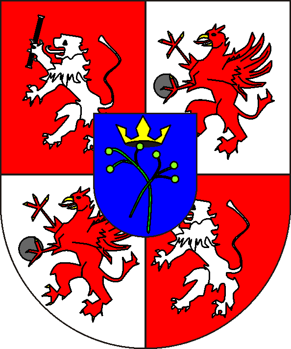 coats of arms of the county of Holzapfel-Schaumburg